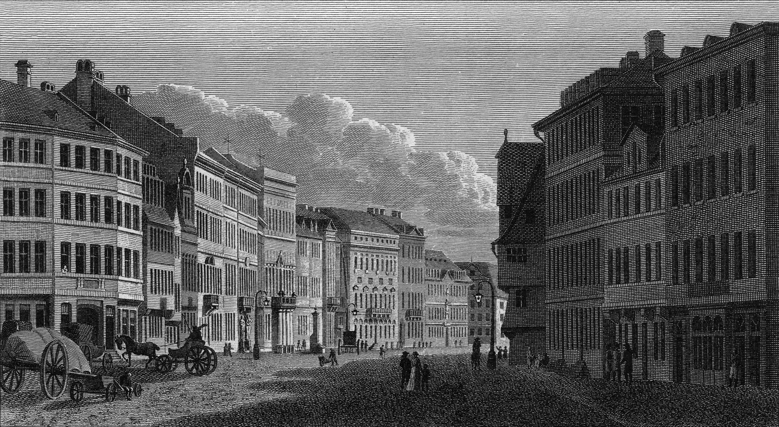 Frankfurt on the Main: Ansicht der Zeile zu Frankfurt a.M. (View of the Zeil in Frankfurt on the Main)